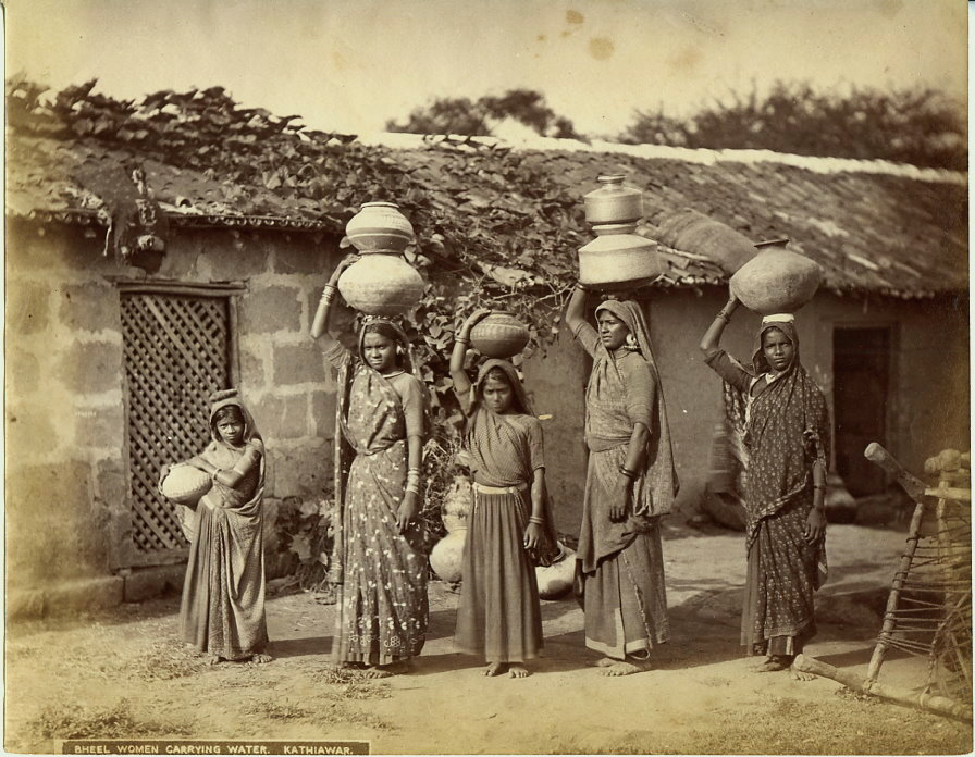 Bheel women Carrying water on their head, Kathiawar